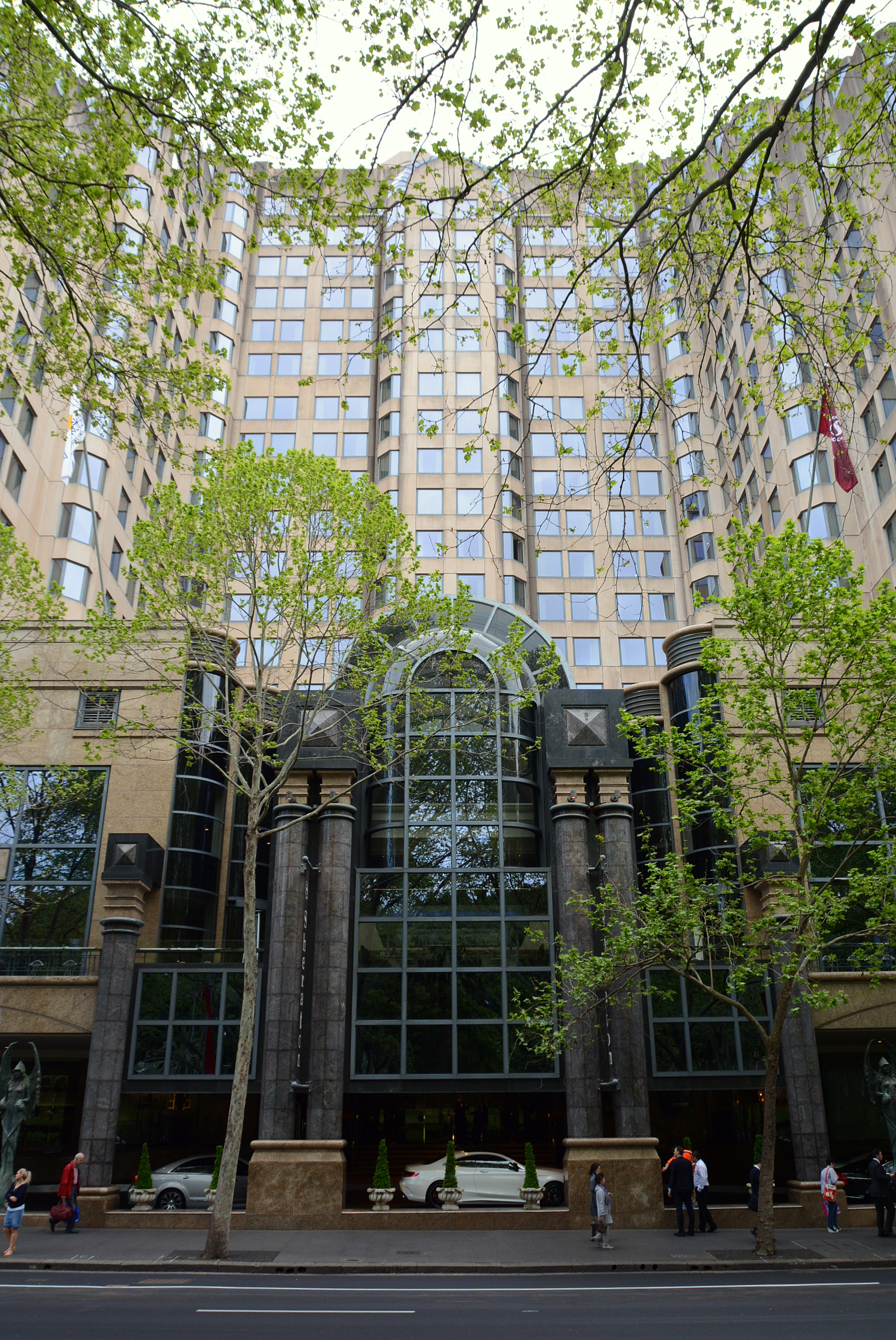 Sheraton Hotel, Sydney